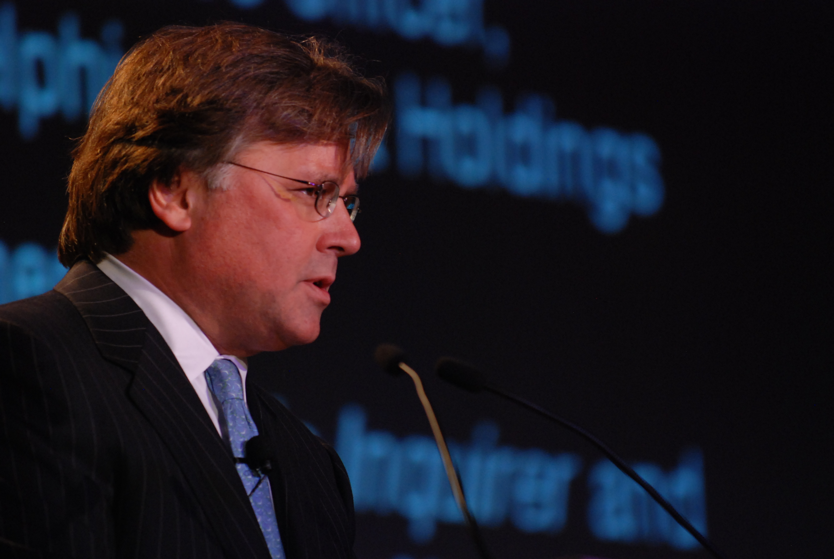 Brian Tierney at the 2007 PRSA (Public Relations Society of America) International Conference in Philadelphia, PA.